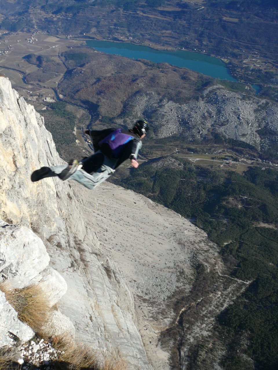 Steph Davis performing a BASE jump in a wingsuit